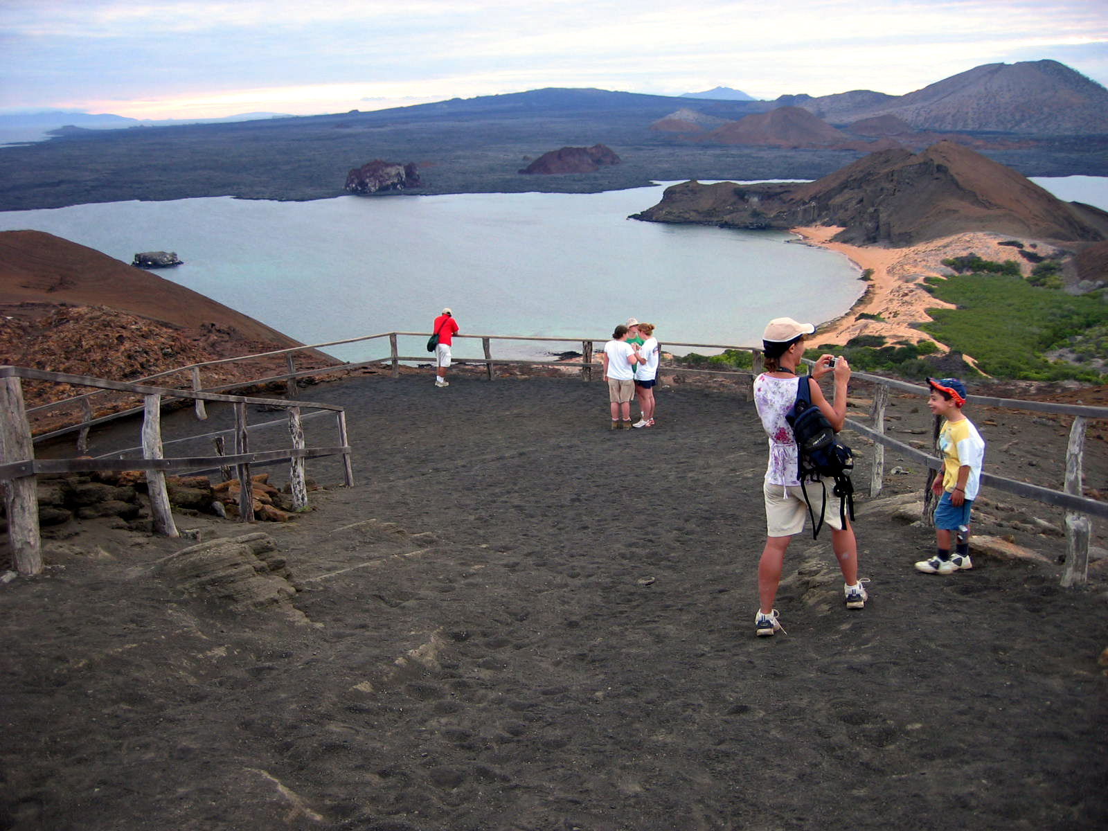 Pinnacle Rock Overview, Bartolome Island, Galapagos